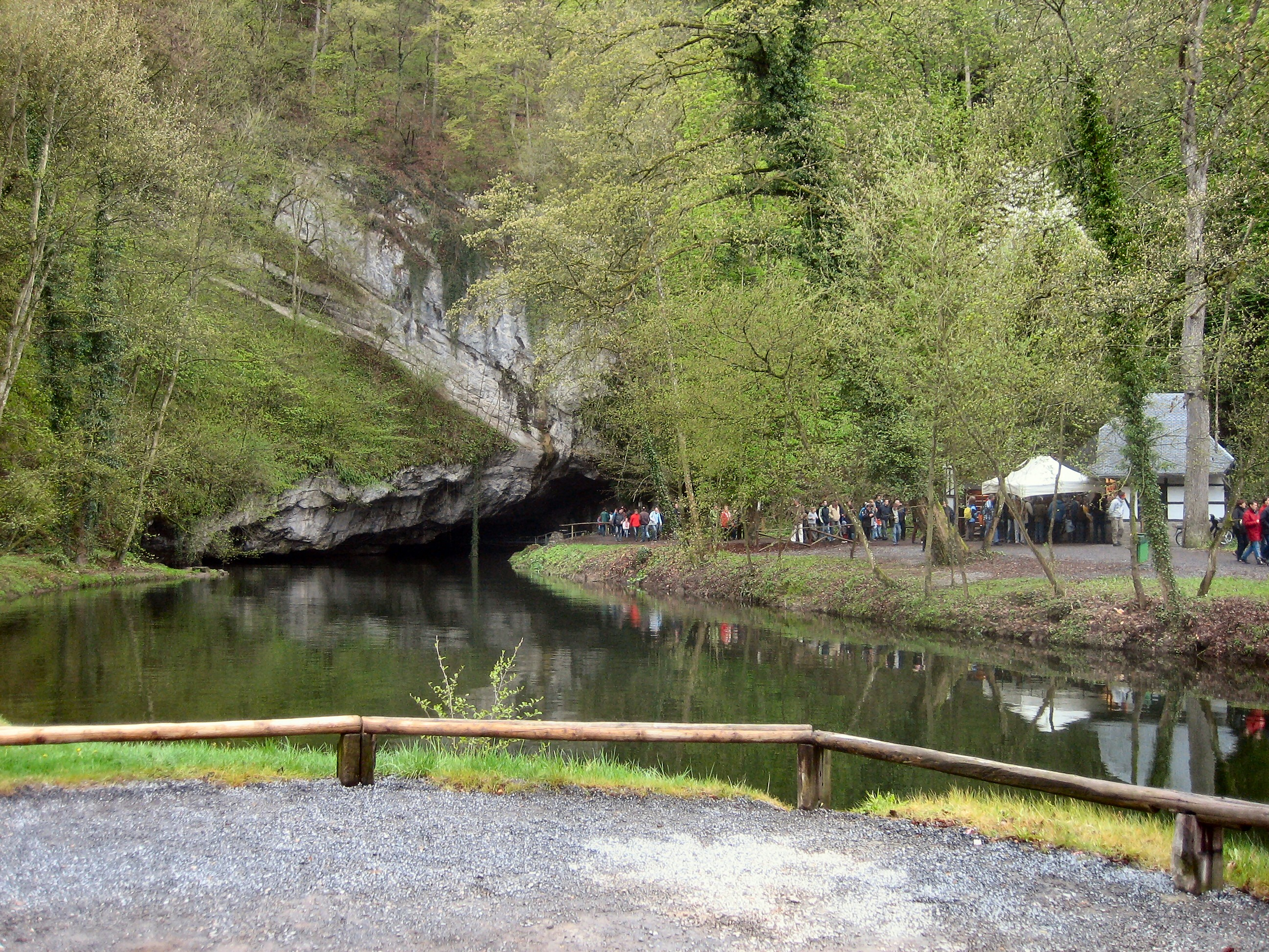 Caveexit of river Lesse, after running subsurface in the Caves_of_Han-sur-Lesse. At the Ponor (Entrance), Gouffre de Belvaux, the river made its way through the mountain, which has a length of 1100m at its base.